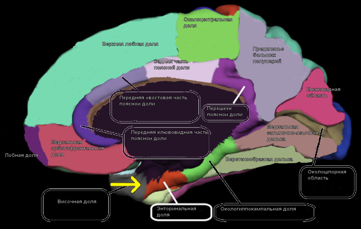 medial view of human brain cortex areas